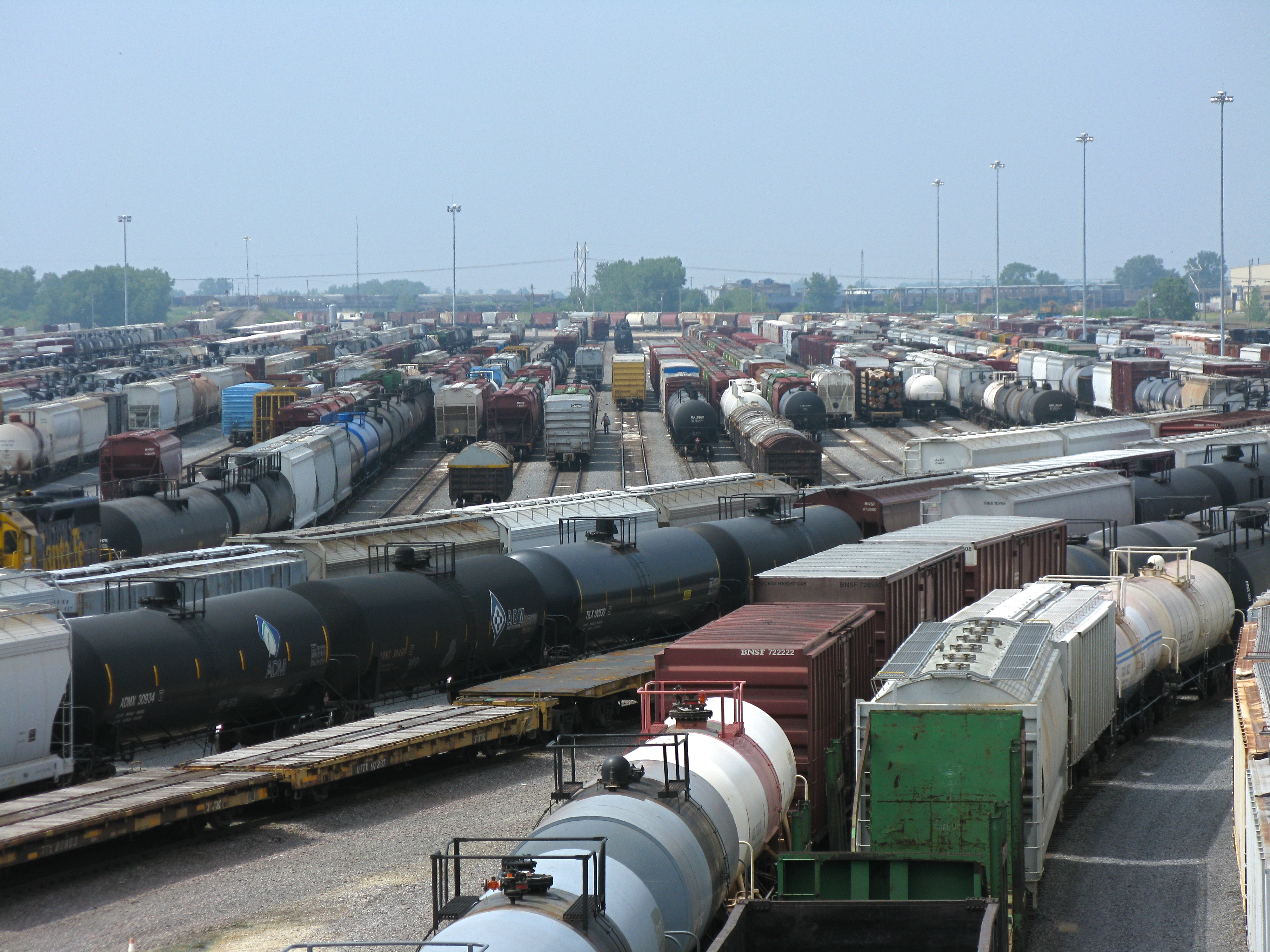 IMG_7906 The BNSF Railway Classification Yard, South of Galesburg, Illinois